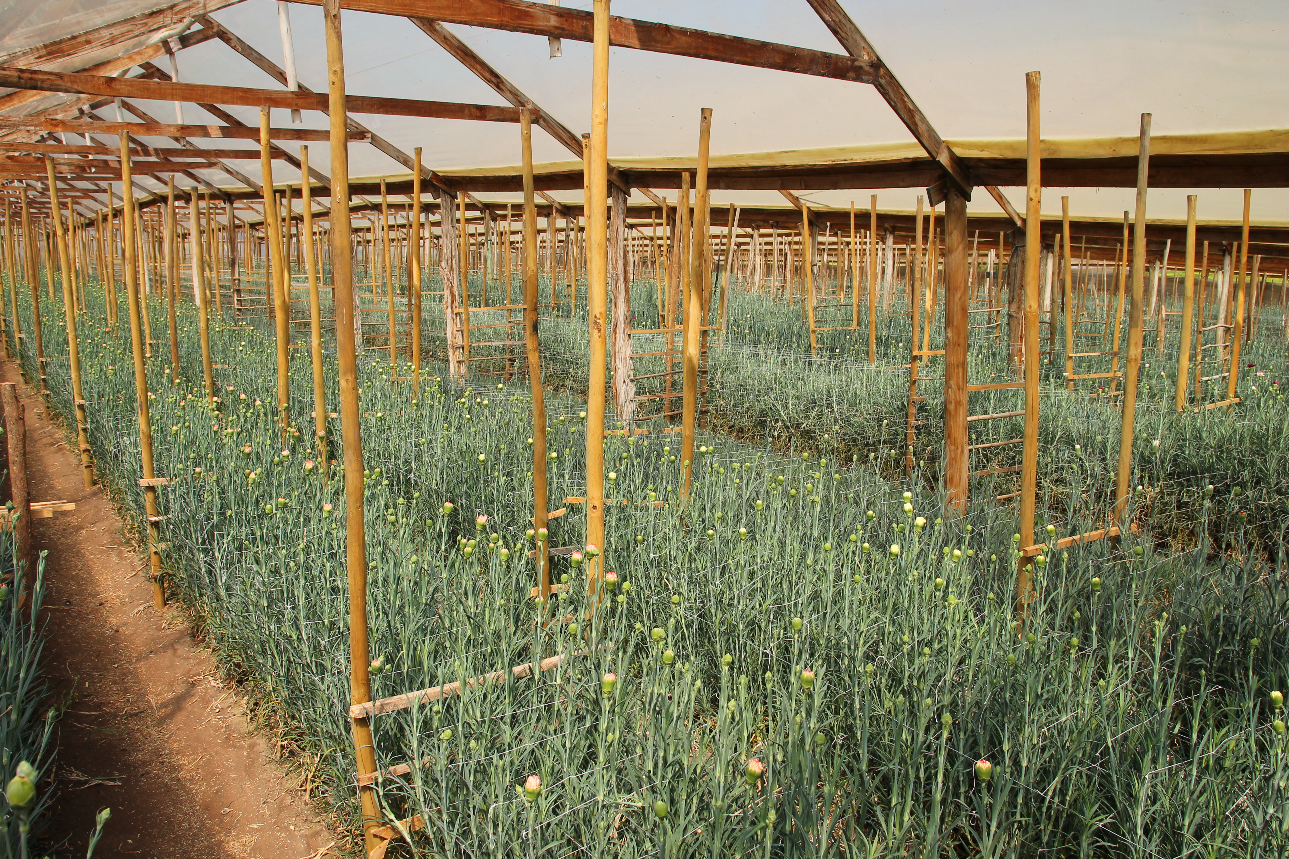 Carantions, Longotoma, La Ligua